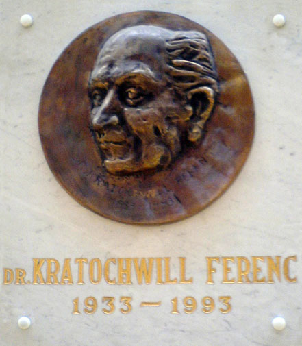 Ferenc Kratochwill. University of Miskolc, Hungary